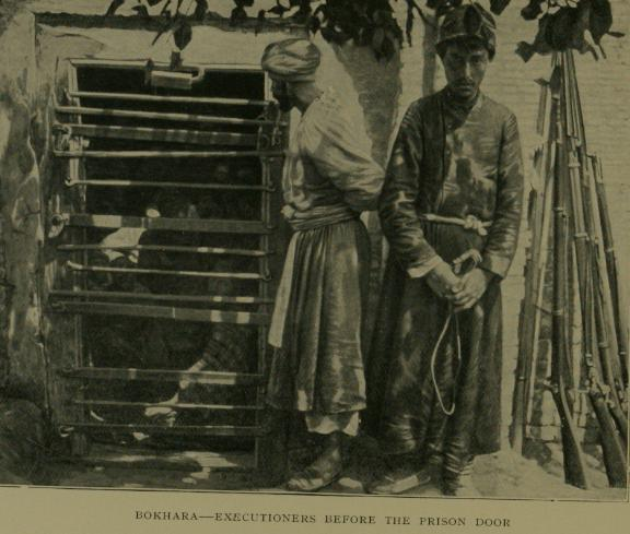 executioner before the prison door